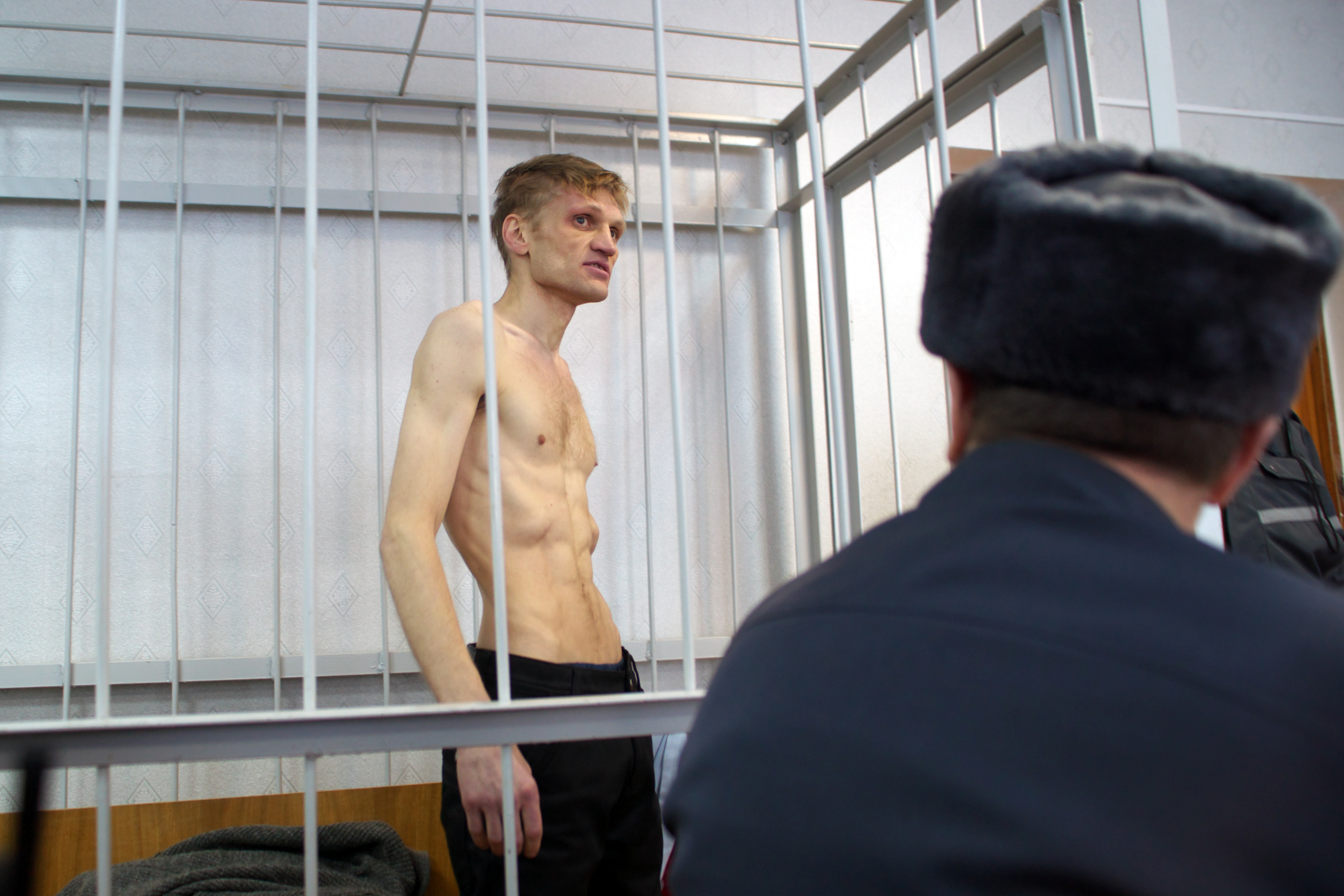 Siarhei Kavalenka is a Belarusian political activist and member of the Conservative Christian Party